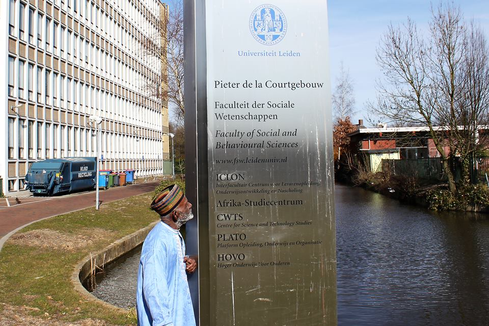 Ghanaian photographer James Barnor visiting the African Studies Centre, Leiden University, 21 March 2016. Building left: Pieter de la Court Building, Faculty of Social Sciences, Leiden University.